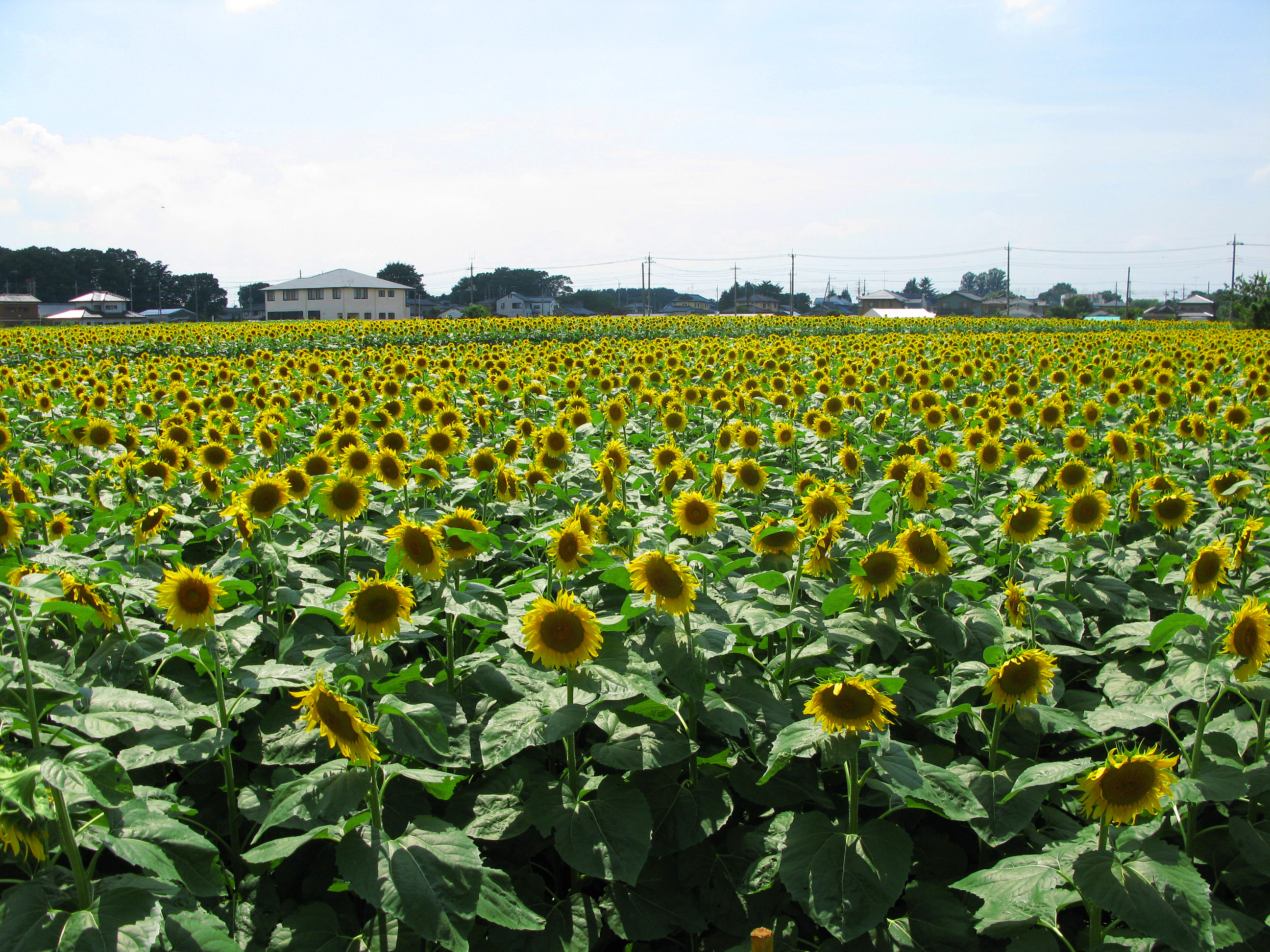 A sunflower field in Nogi, Tochigi